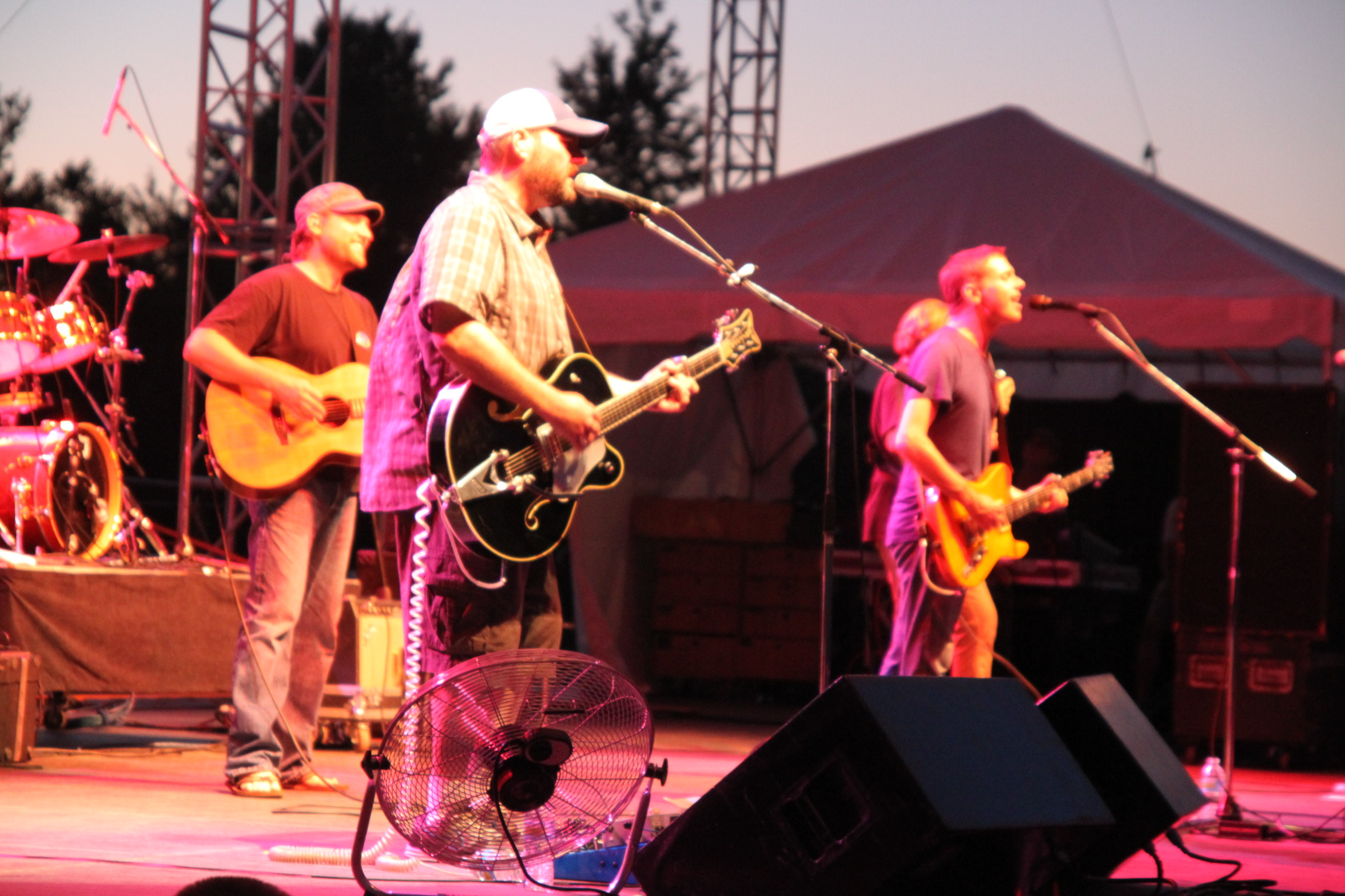 Toad the Wet Sprocket performing on July 29, 2011.